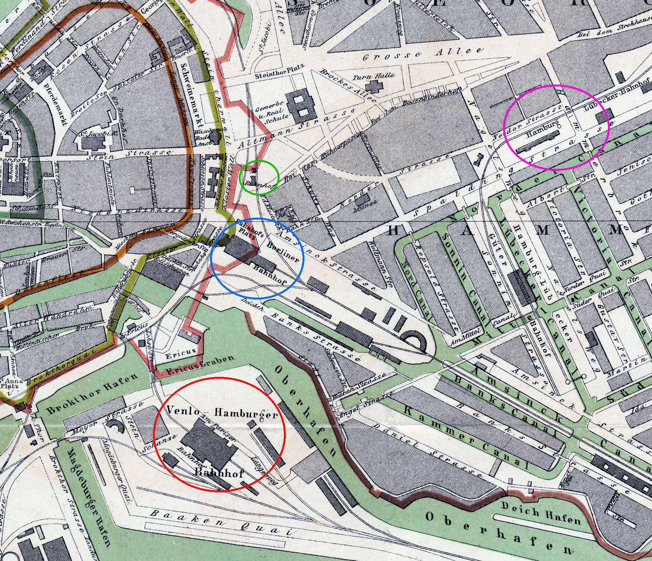 Maps of the stations of Hamburg in and from 1880, incuding the communication lines, partly in streets